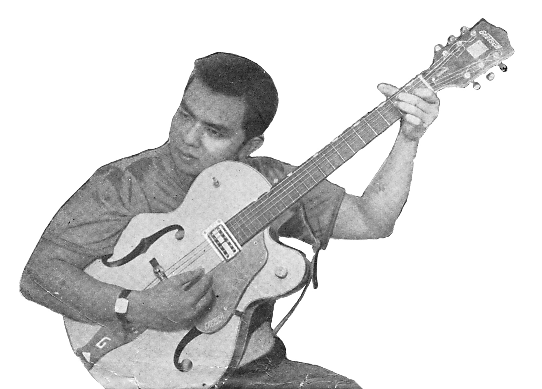 Indonesian vocalist and musician Rachmat Kartolo on the obverse cover of his 1963 EP Kunanti Djawabmu (EP 06, RPM 45)